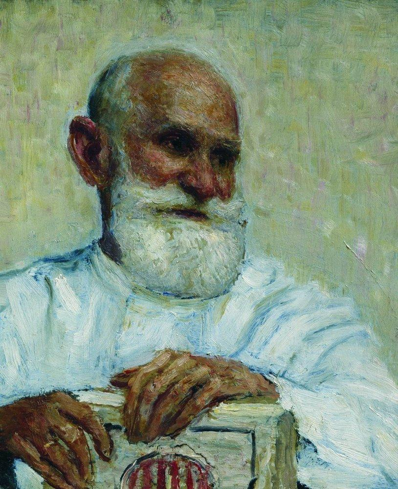 Portrait of the physiologist Ivan Petrovich Pavlov